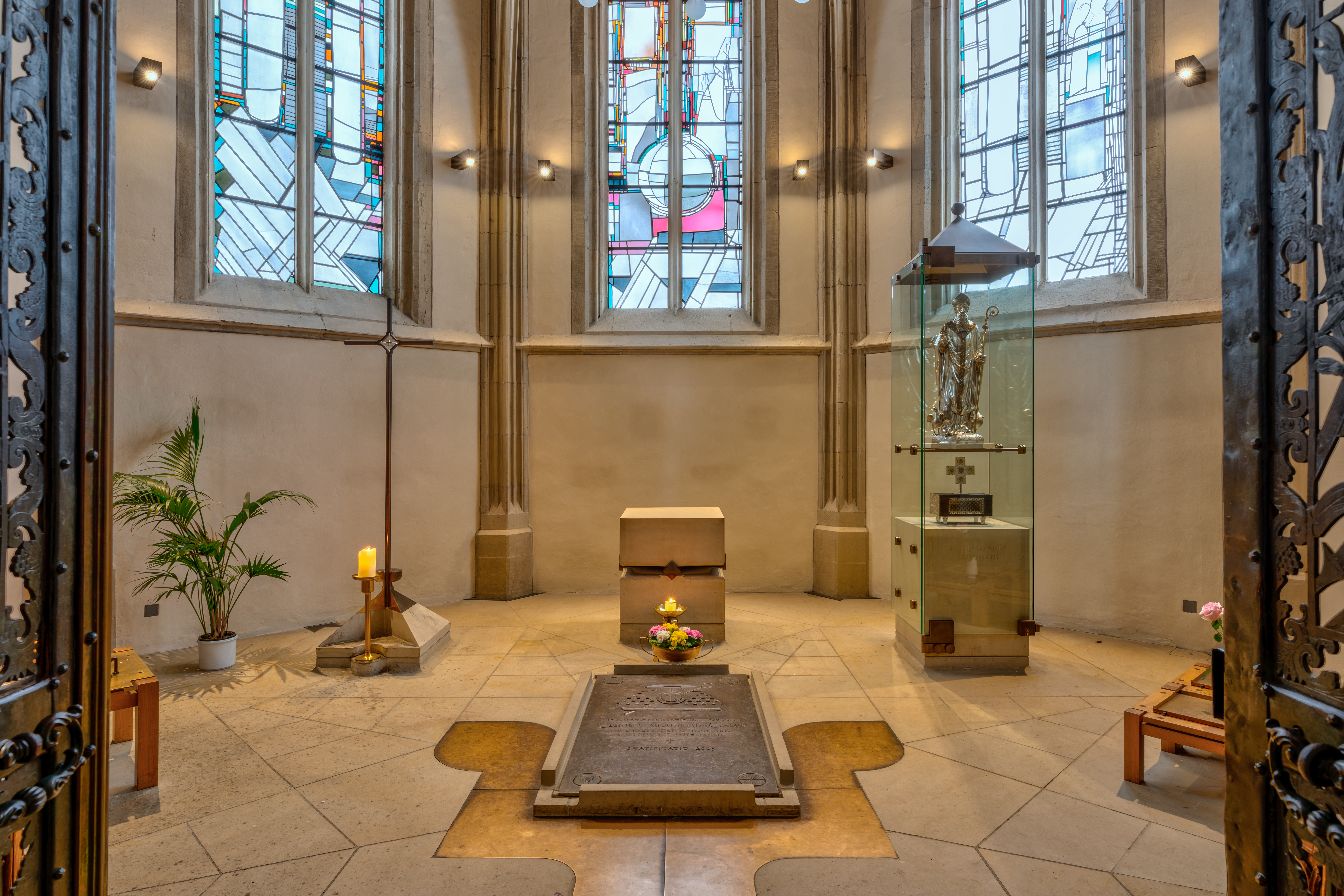 Tomb of Clemens August von Galen in the Ludgerus Chapel in the St Paul's Cathedral, Münster, North Rhine-Westphalia, Germany